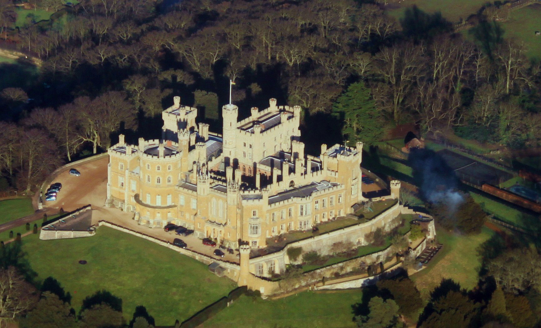 First target on my flight in the RAF Dominie in January was this striking building in Rutland.